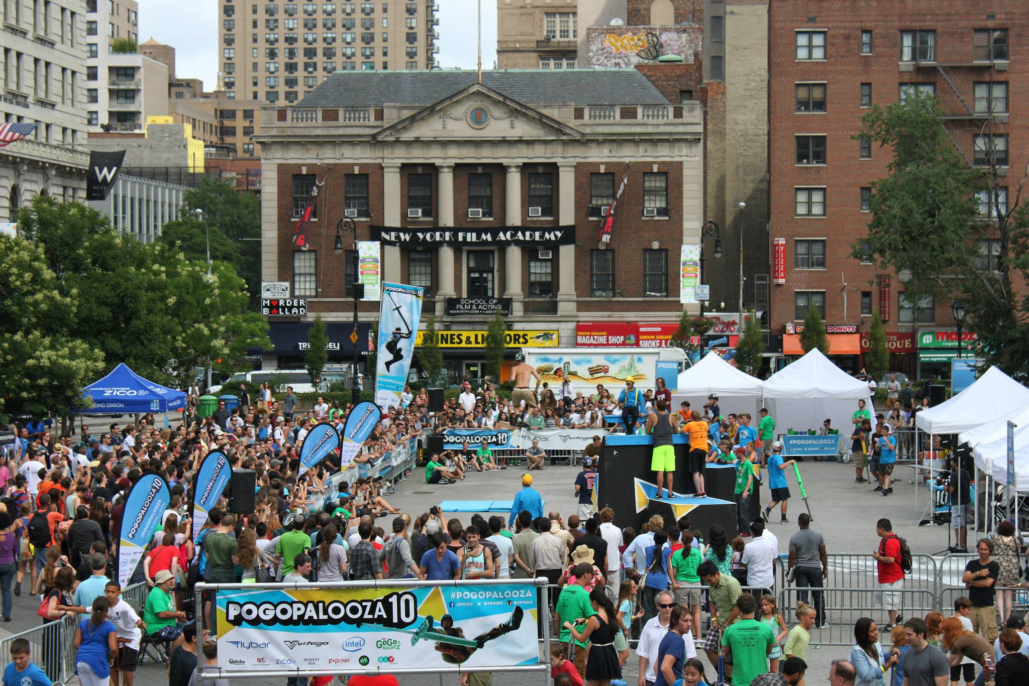 This is a picture of the crowd at Pogopalooza 10